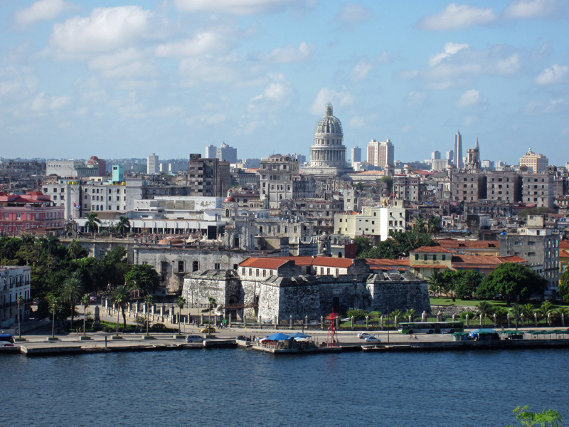 Old Havana